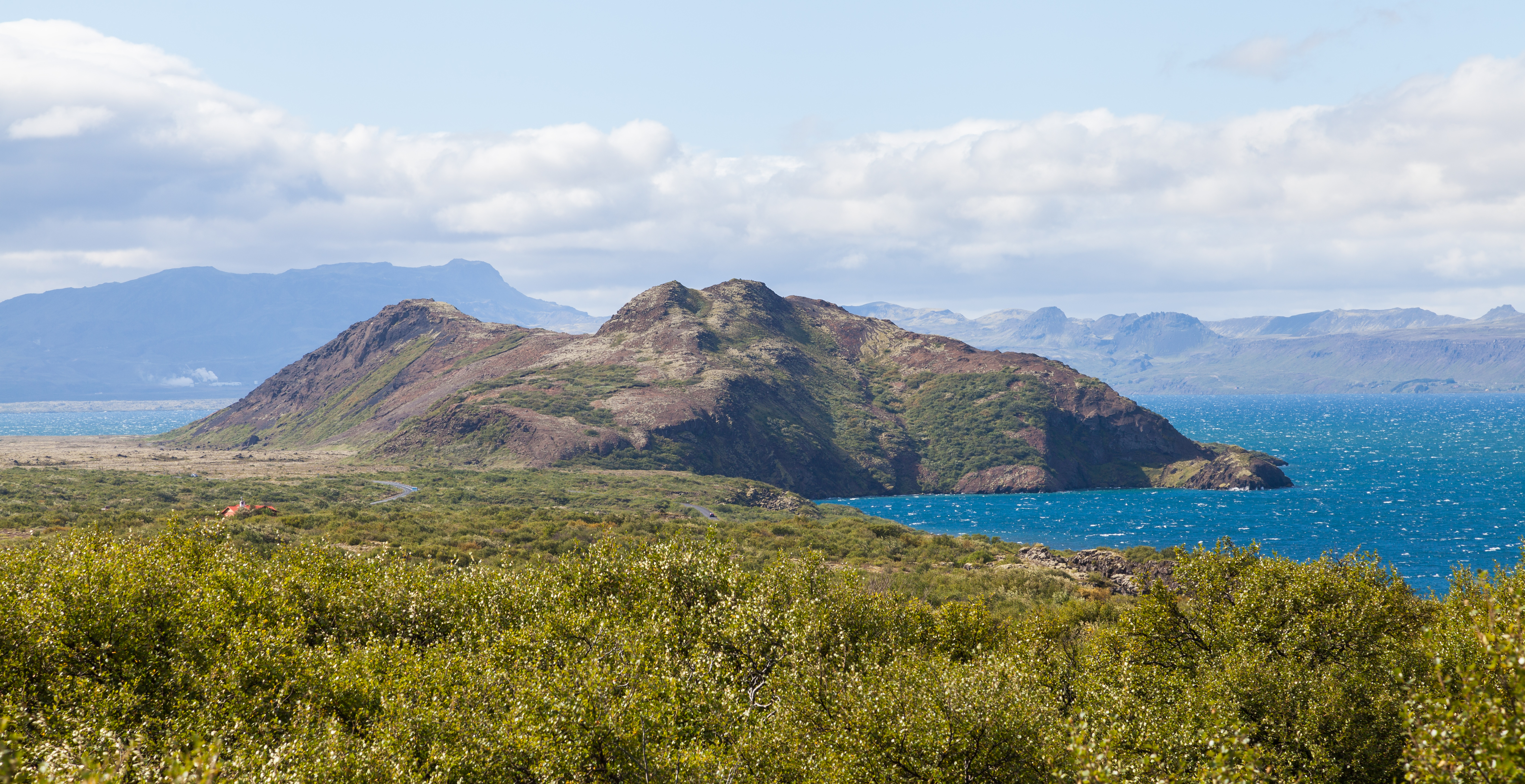 Arnarfell, Þingvellir National Park, Suðurland, Iceland